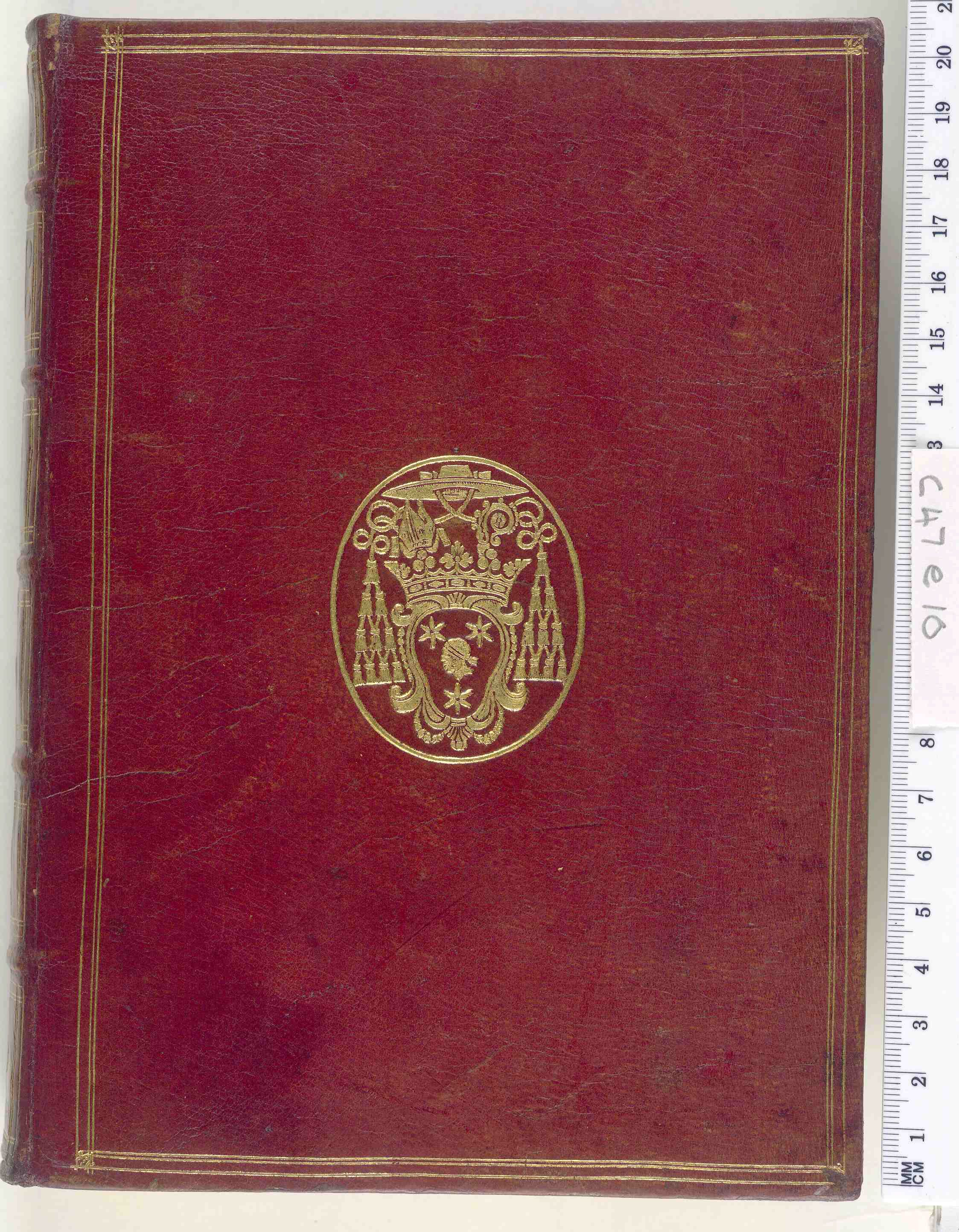 Style: Armorial; Caption: Upper cover; Colour: Red; Edge: Unspecified